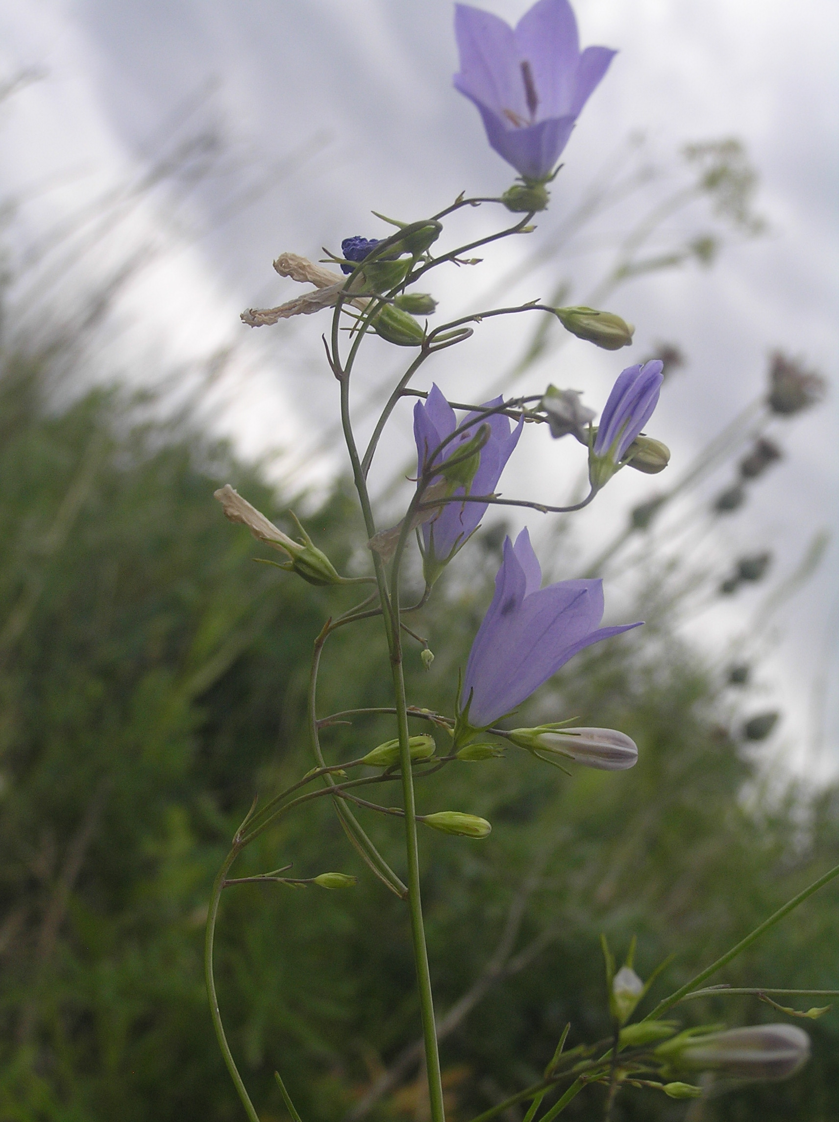 Campanula moravica, near Velké Pavlovice, Southern Moravia, Czech Republic